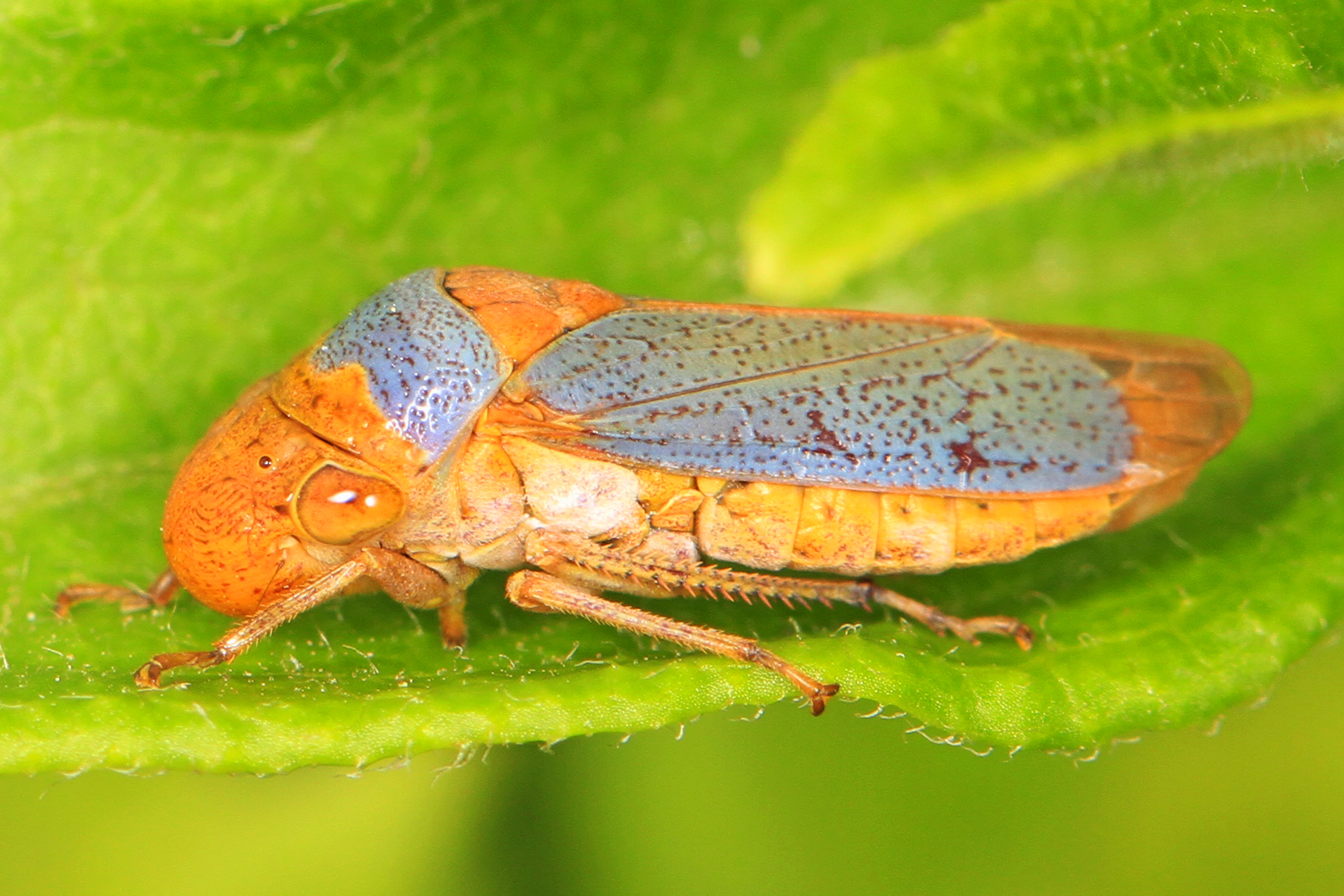 Sharpshooter - Oncometopia clarior, National Butterfly Center, Mission, Texas. I almost didn't take a picture of this because I see so many of them at home. I'm glad I did, as it turned out to be a different species than the one I see at home.